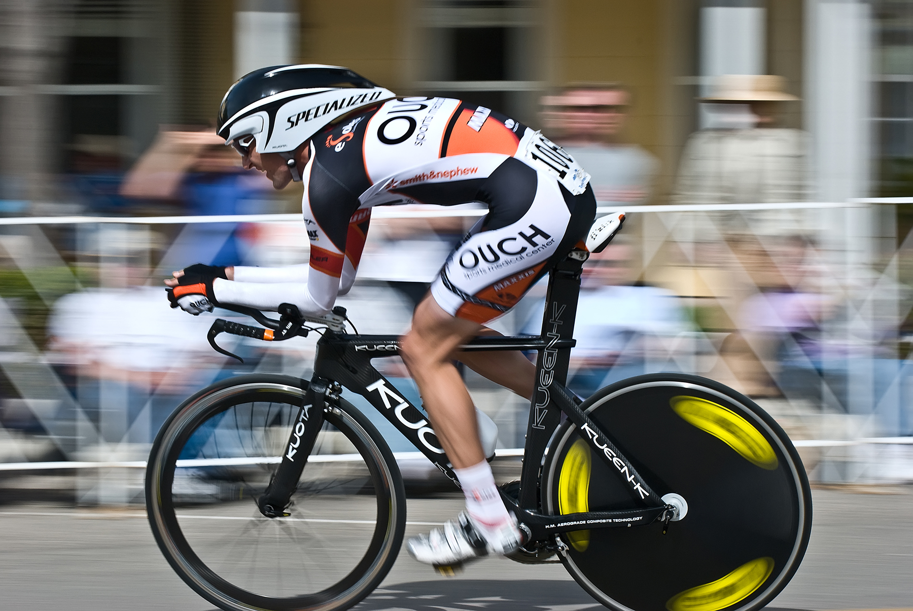 Jonathan Patrick McCarty - 2009 Tour of California. As seen on course in Los Olivos during the stage 6 time trials starting in Solvang.